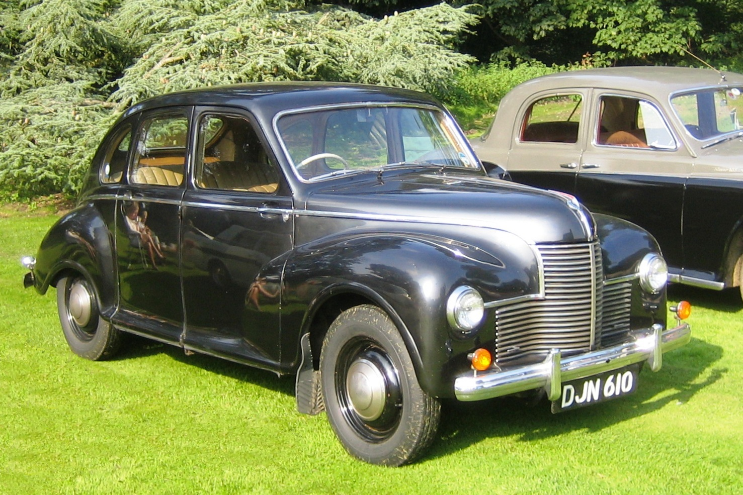 Jowett Javelin at Classic Car Show in Castle Hedingham